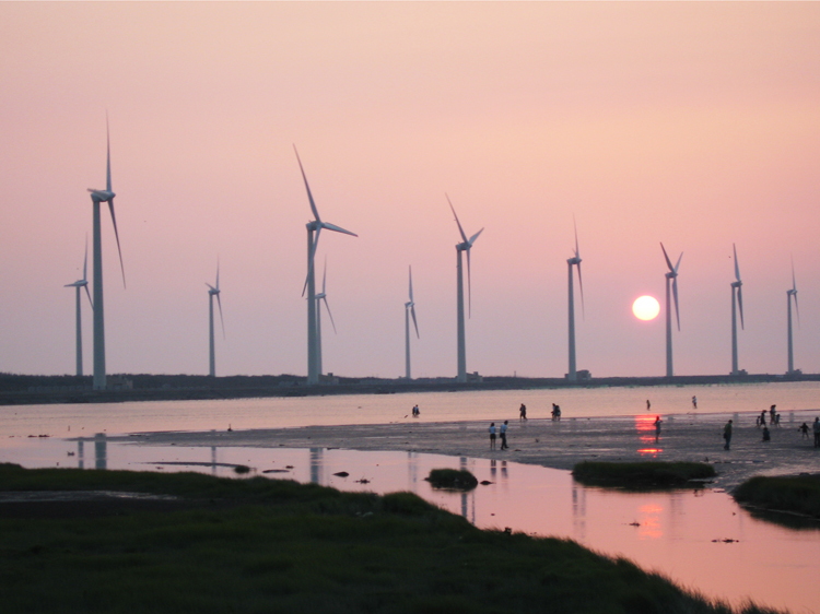 Sunset of wind turbines from Kaomei Wetland in Qingshui Township,Taichung County,Taiwan.